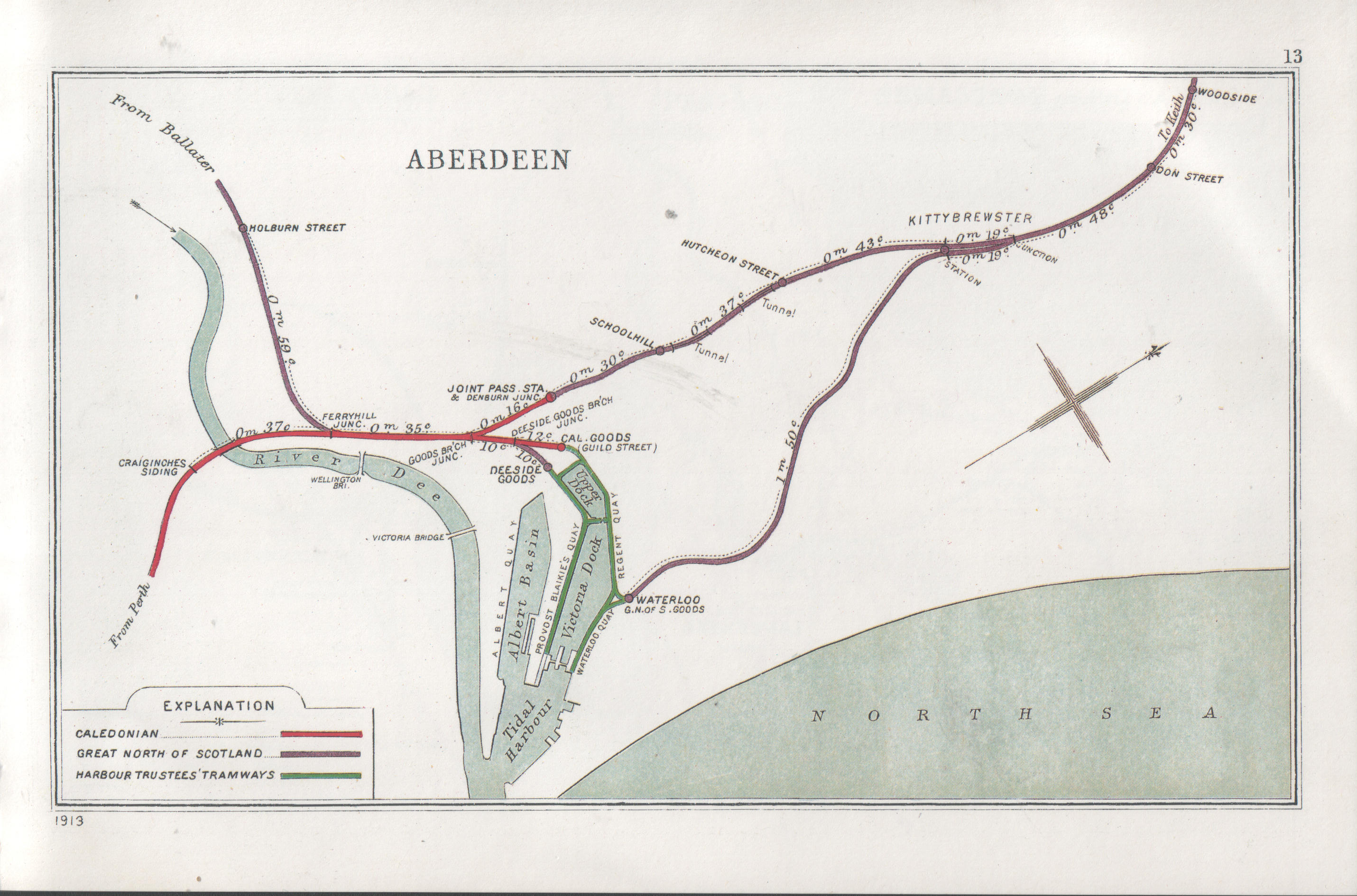 Pre Grouping railway junction around Aberdeen